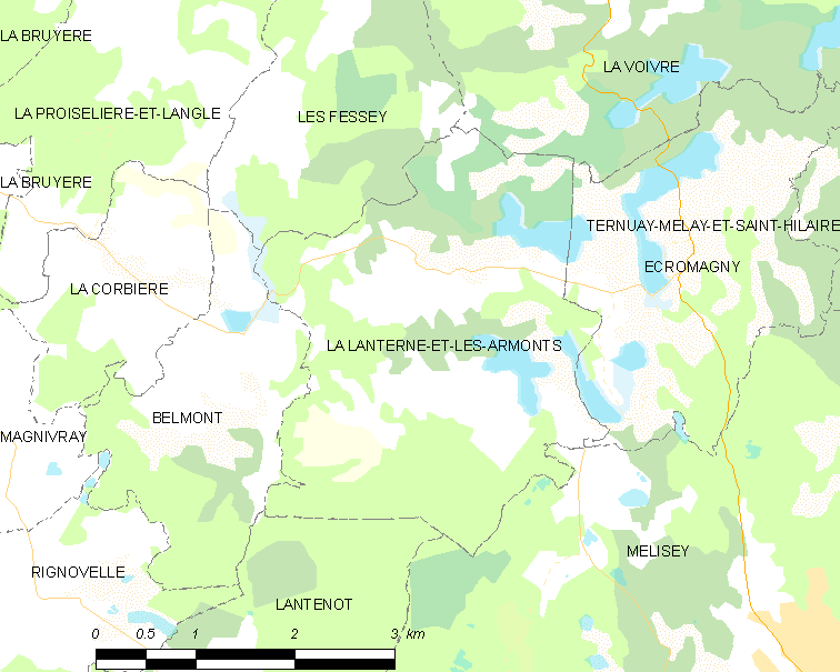 Map of French municipality